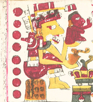 A drawing of Mictlancihuatl, one of the deities described in the Codex Borgia